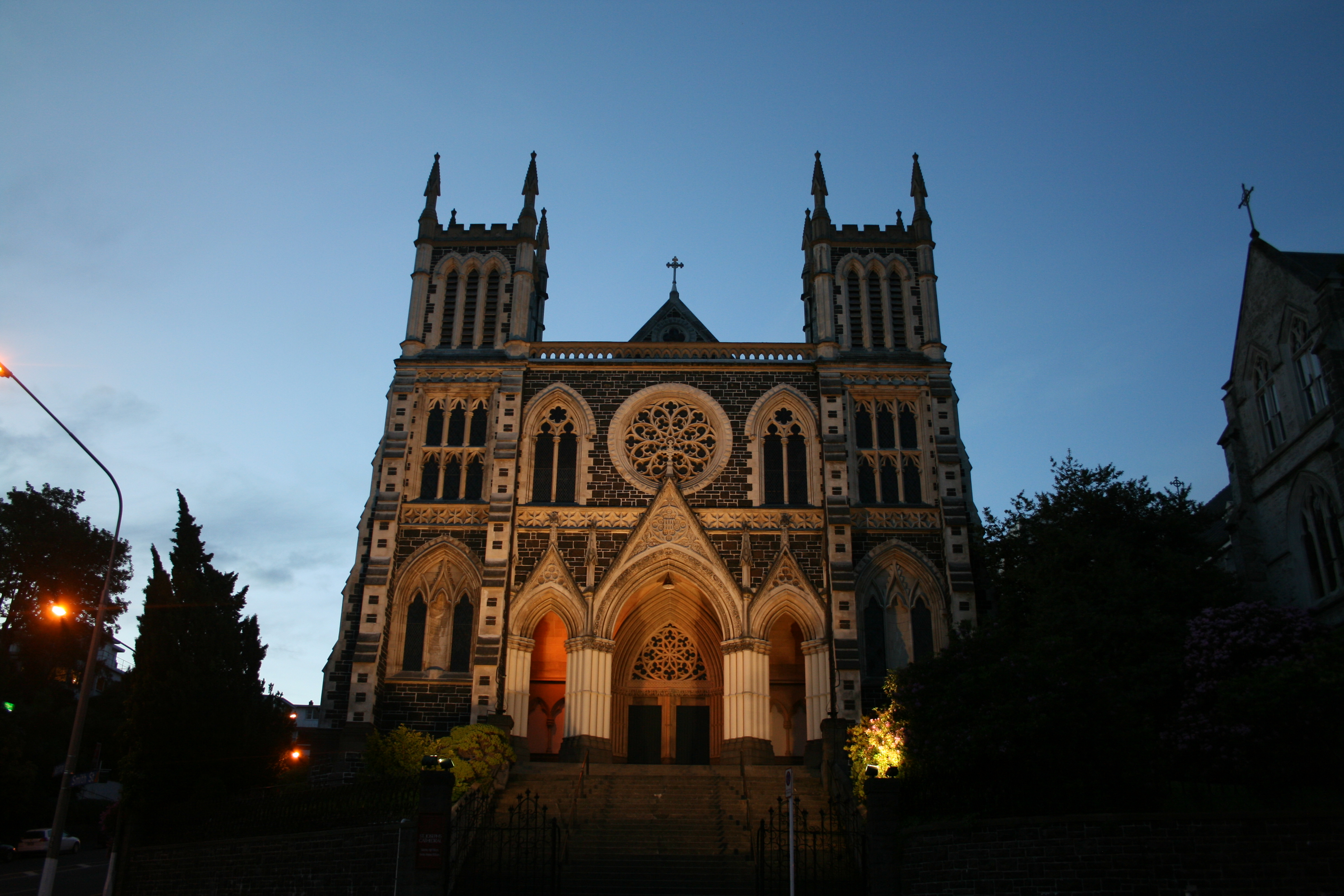 Dunedin, New Zealand